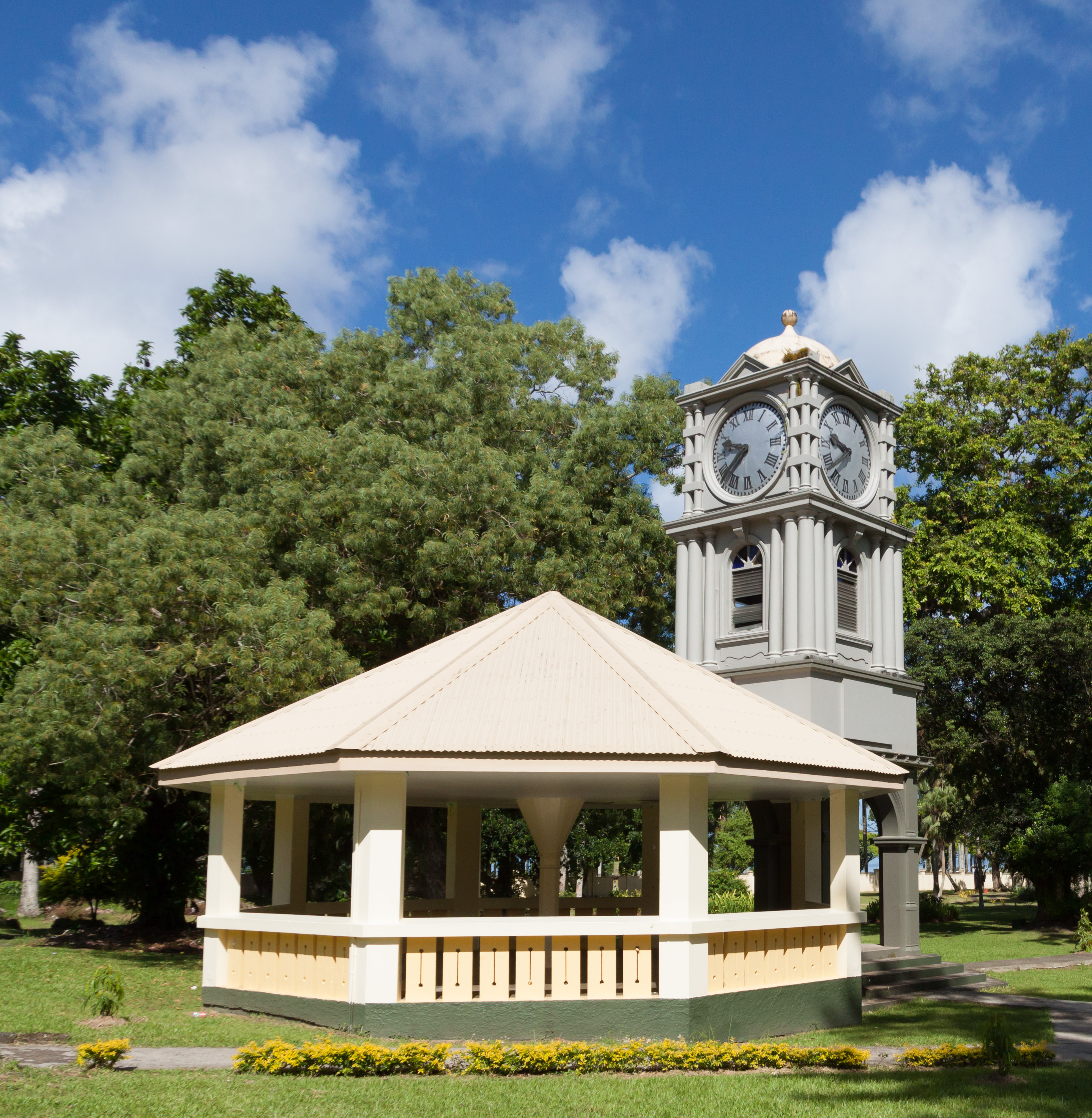 Thurston Garden Clock Tower